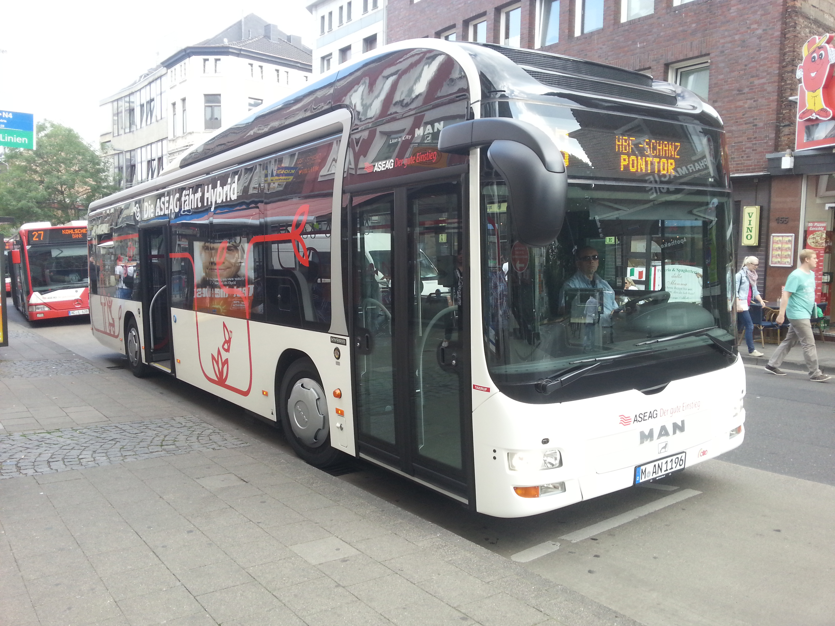 MAN NL 283 Lion's City Hybrid bus (reg. M-AN 1196) in Aachen, Germany. Aachener Straßenbahn und Energieversorgungs AG (ASEAG) operator.